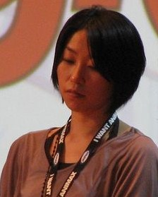 A portion of a photo of the manga artist Katsura Hoshino while she attended the 2008 AnimagiC convention in Bonn, Germany.